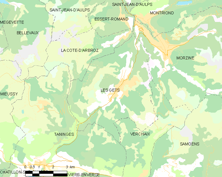 Map of French municipality Les Gets